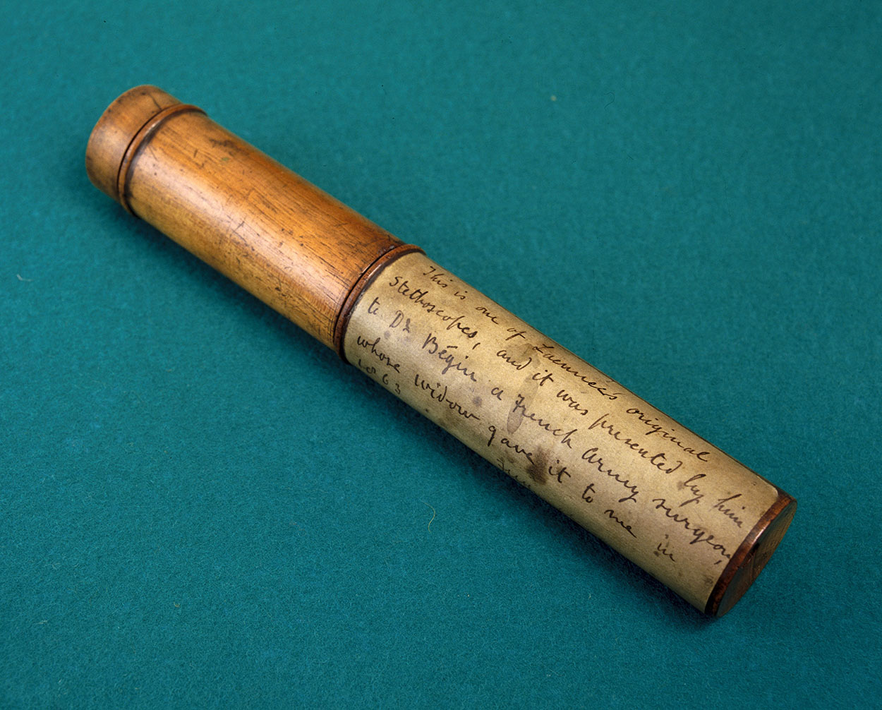 Made of wood and brass, this is one of the original stethoscopes belonging to the French physician Rene Theophile Laennec (1781-1826) who devised the first stethoscope in 1816. It consists of a single hollow tube. The familiar binaural stethoscope, with rubber tubing going to both ears, was not developed until the 1850s. Regarded as the father of chest medicine, Laennec demonstrated the importance of the instrument in diagnosing diseases of the lungs, heart and vascular systems. Ironically, he died of tuberculosis.